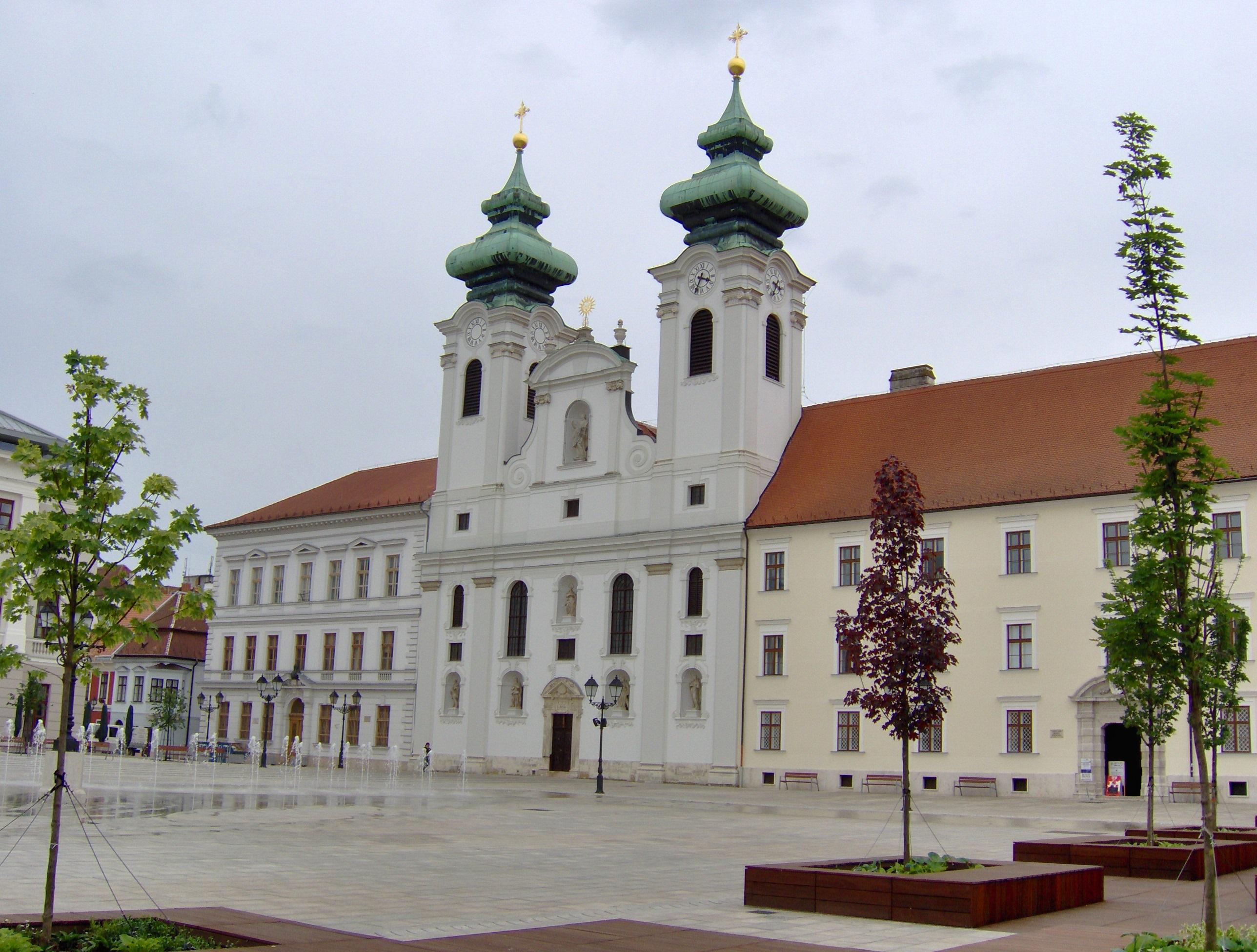 Széchenyi Square (Széchenyi tér) with Saint Ignace Church in Győr, Hungary